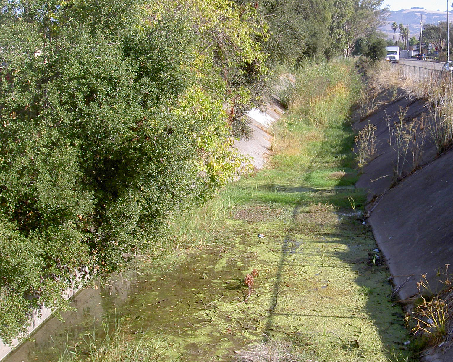 looking upstream along channelized section of Washington Creek from the corner of Washington and McDowell, Petaluma, California (note: dry season)